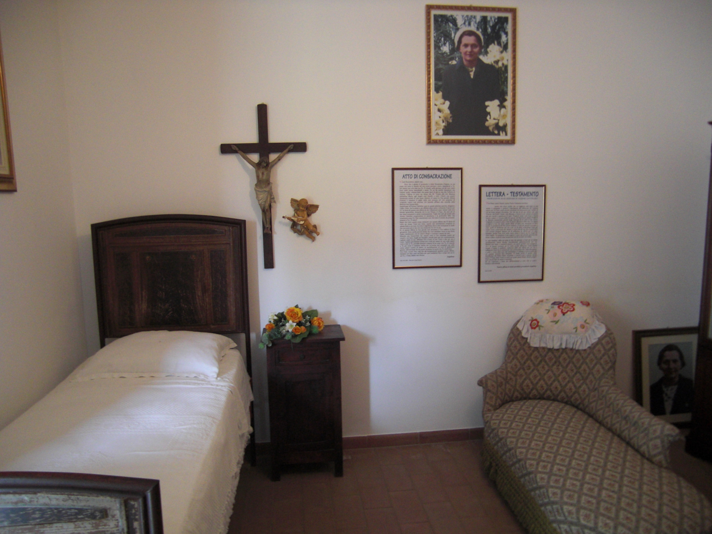 The home of Angelina Pirini (Italy)